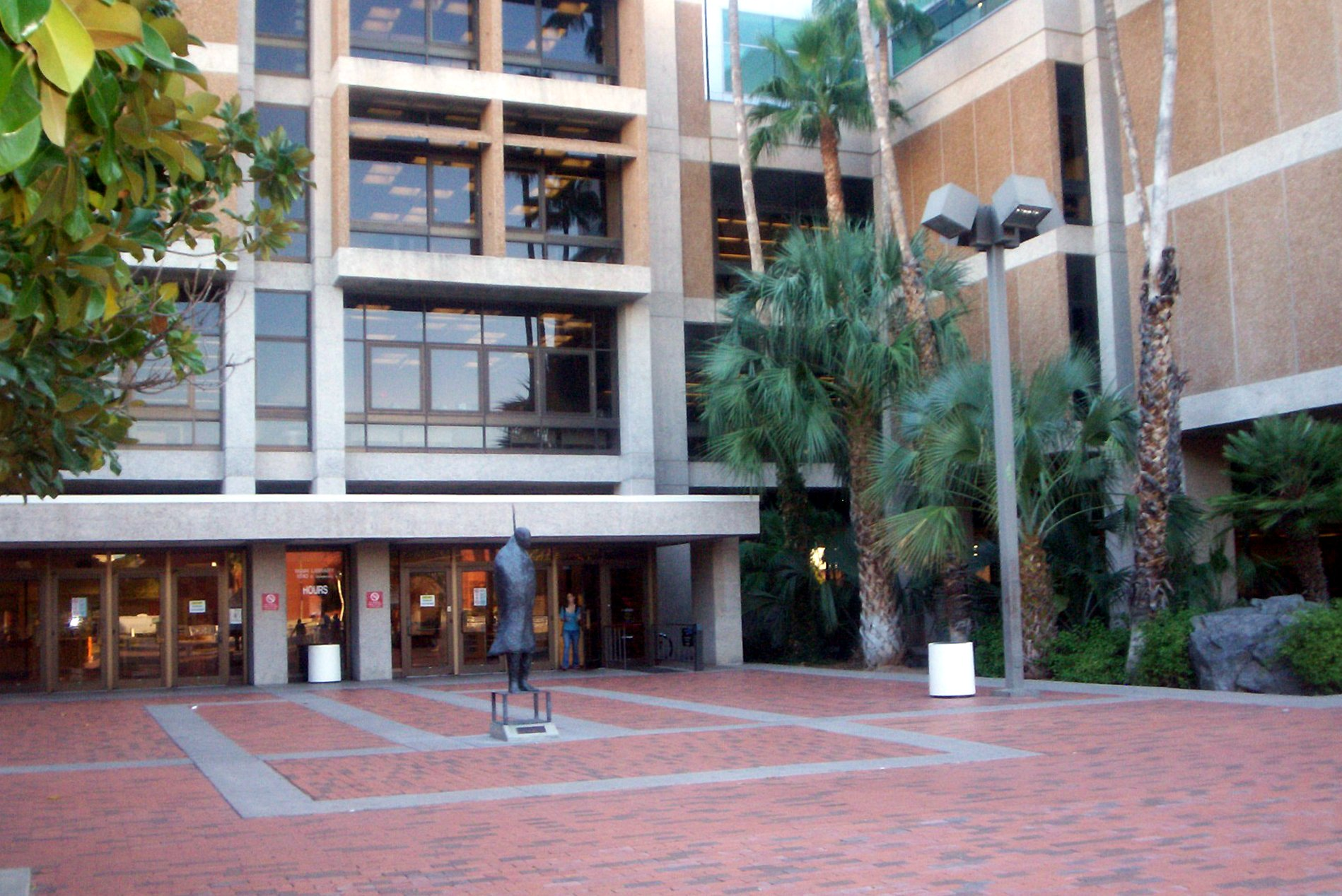 Main entrance to the main library of the University of Arizona, Tucson, Arizona